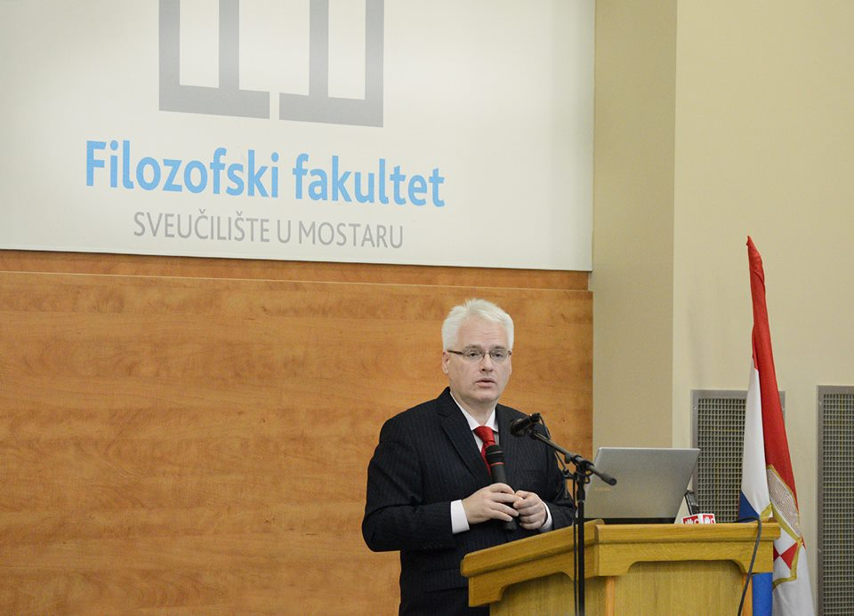 Croatian president Ivo Josipović giving a lecture on his idea of constitutional changes in Croatia at the Faculty of Philosophy of the University of Mostar